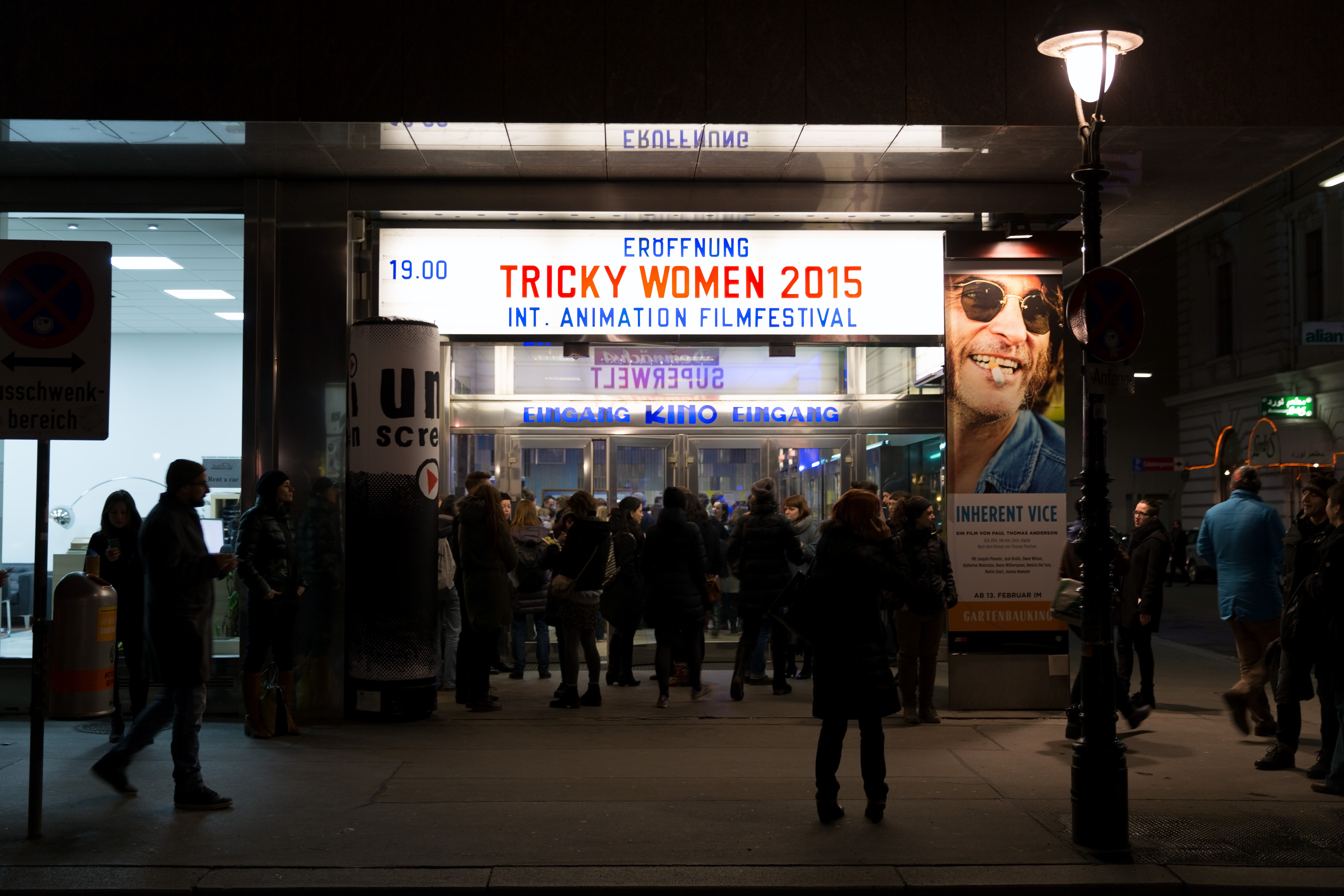 Opening evening of the film festival Tricky Women at Gartenbaukino, Vienna,Austria.